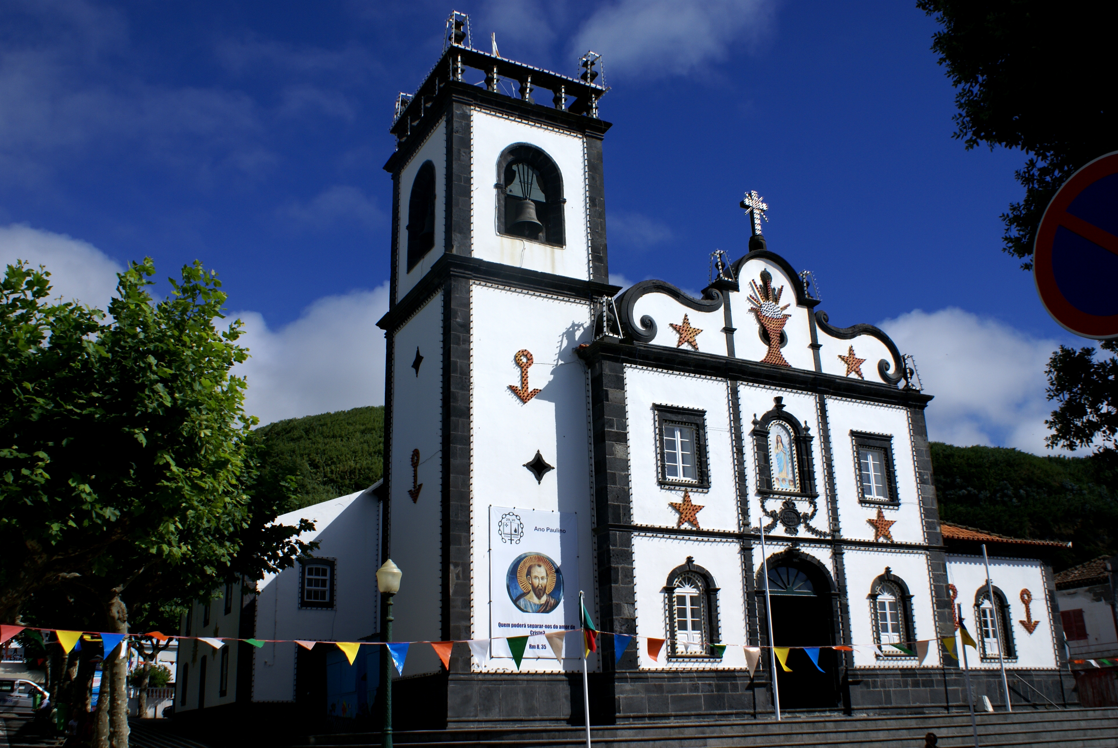 Front façade of the Church of Nossa Senhora da Conceição, Mosteiros, São Miguel (Azores), Portugal